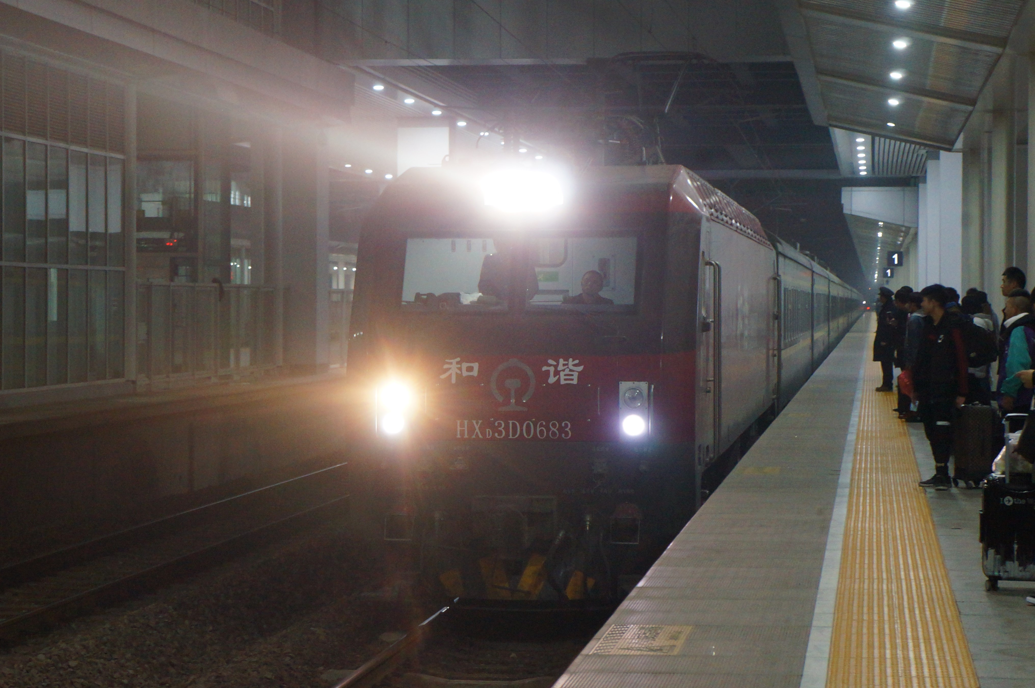 201812 HXD3D-0683 hauls Z216 from Shanghai to Lanzhou enters into Wuxi Station